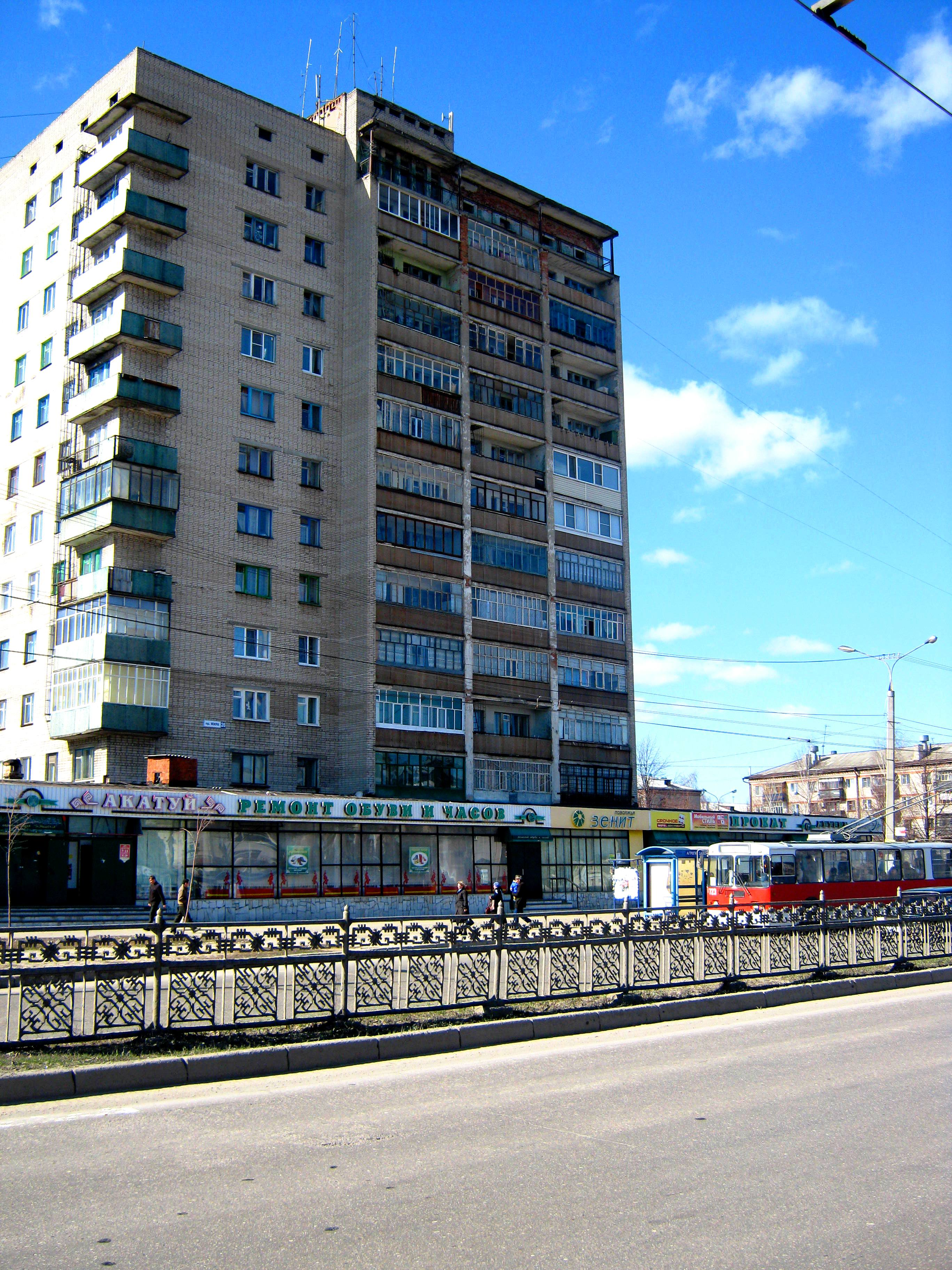 Cheboksary. Prospekt Mira, 2011